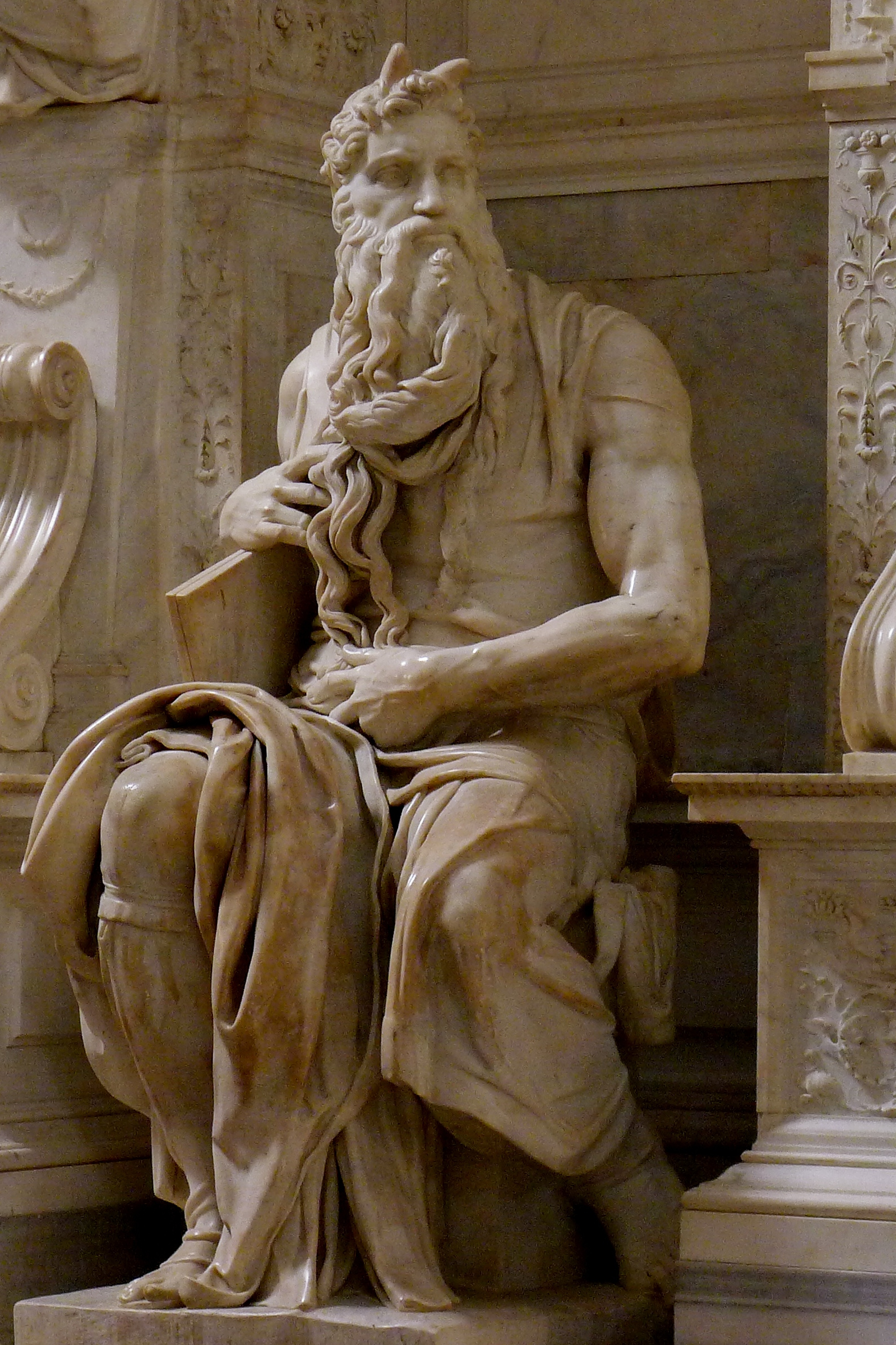 Moses by Michelangelo Buonarroti, Tomb (1505-1545) for Julius II, San Pietro in Vincoli (Rome)